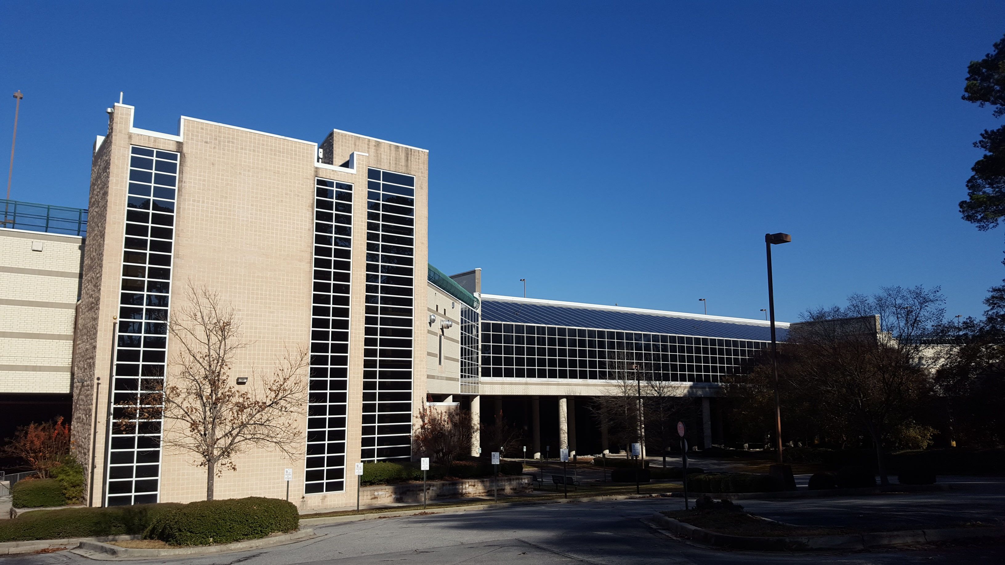 Richland FASHION Mall Columbia, SC December 2017